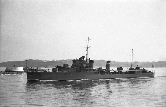 Royal Navy´s HMS Exmouth leaving the port of Bilbao. Aboard leaders and members of the Basque Nationalist Party (EAJ-PNV) were taken to exile to escape prosecution from Franco´s fascist troops. Doroteo Ziaurriz, president of EAJ-PNV was one of the rescued ones.